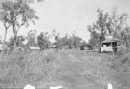 11 Signals Unit RAAF, general camp area, Birdum, December 1944